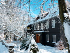 Vereinshaus des AV Agricola Clausthal